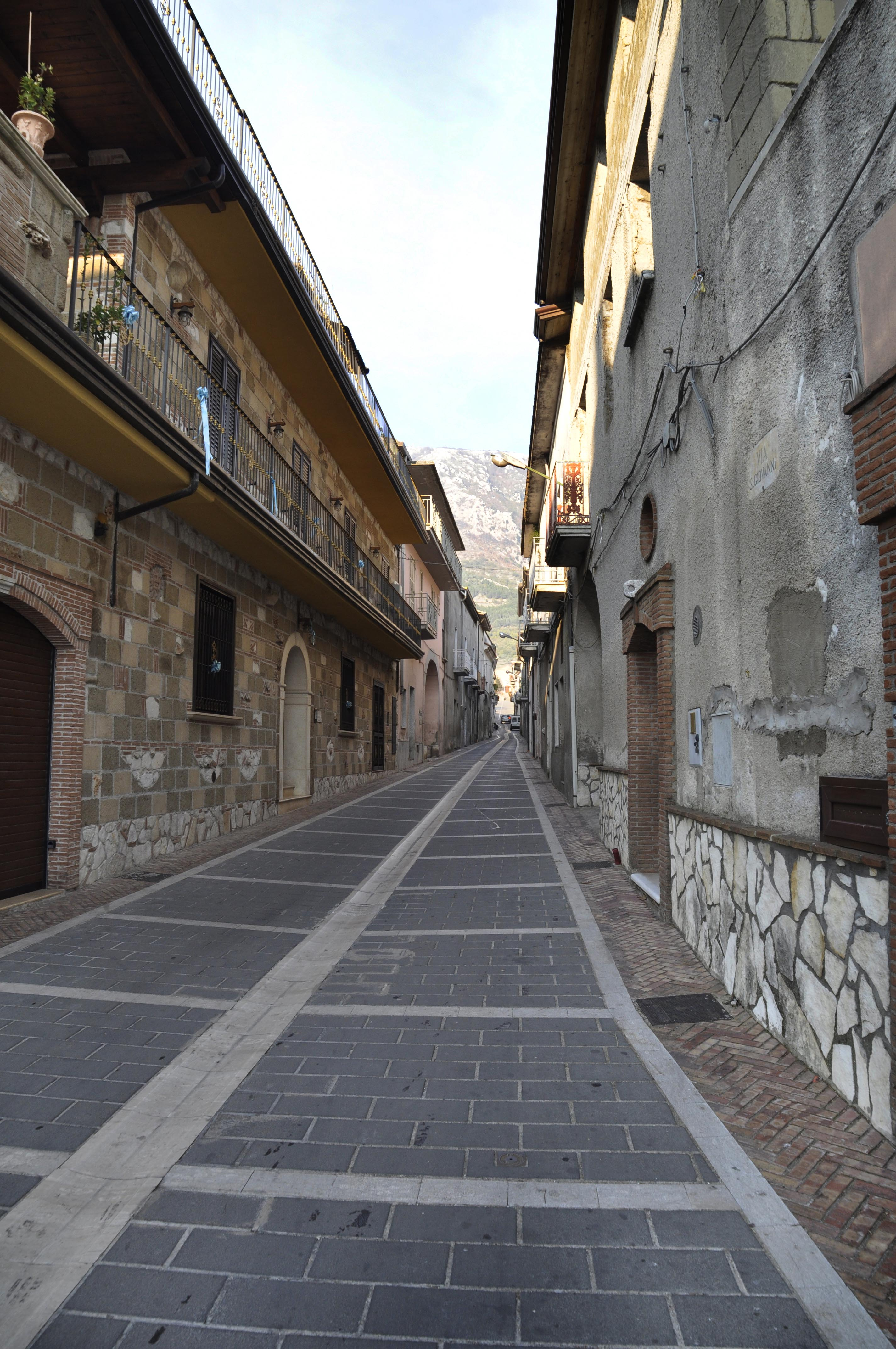 A street in the town of Bucciano, in the province of Benevento.